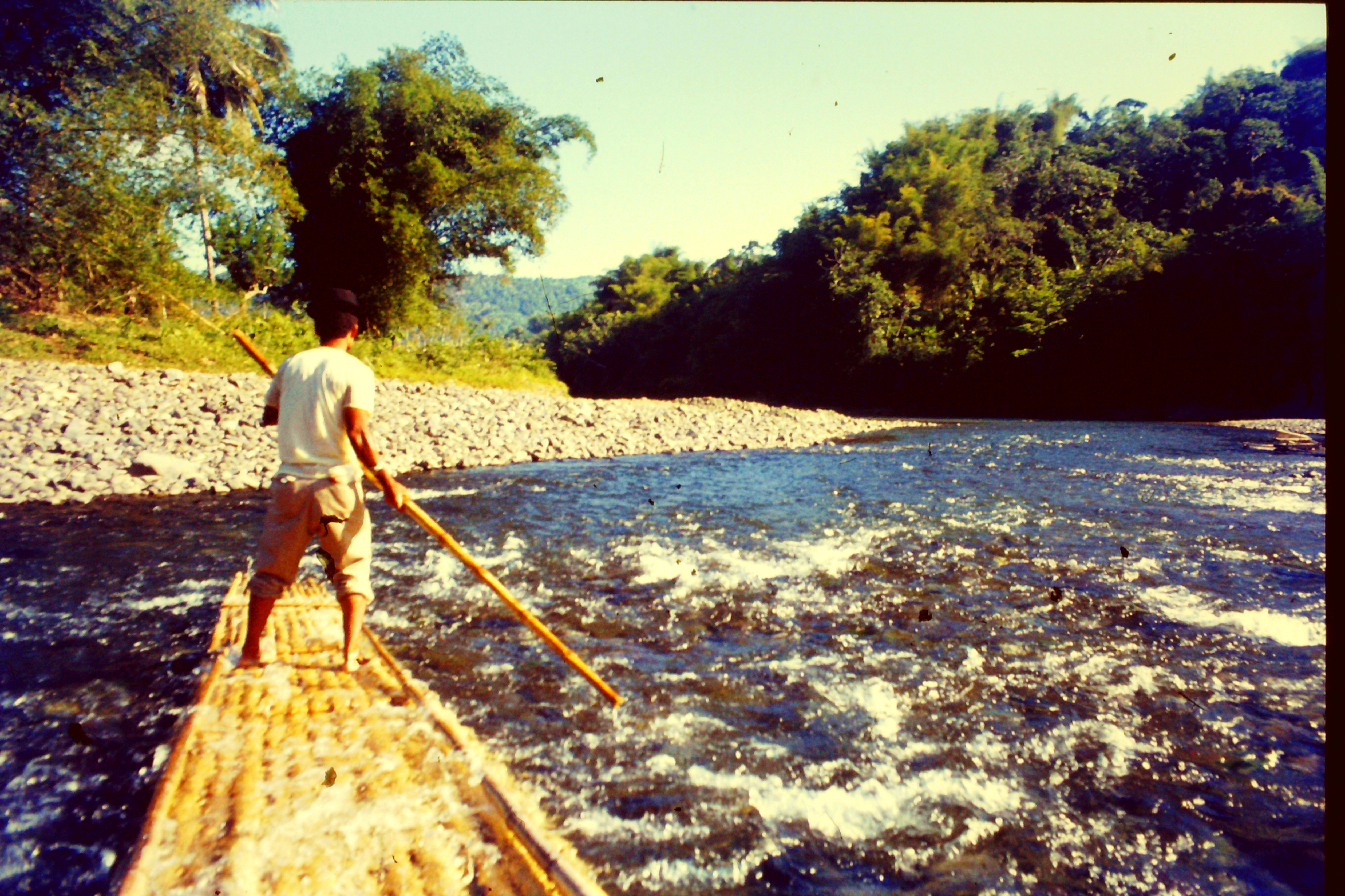 Bamboo rafting on the Rio Grande